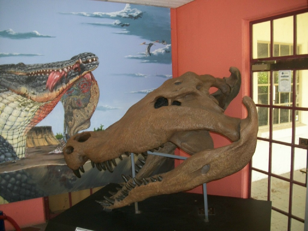 Deinonychus model at Dinosaur Museum, Canberra, Australia.